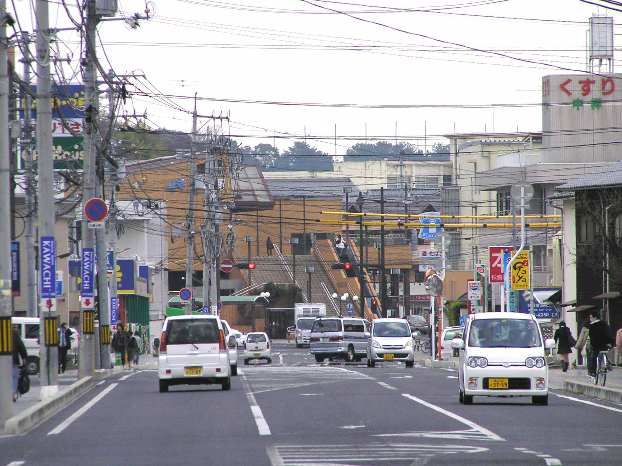 The street in front of Nakasho station (Okayama prefectural road No.186)